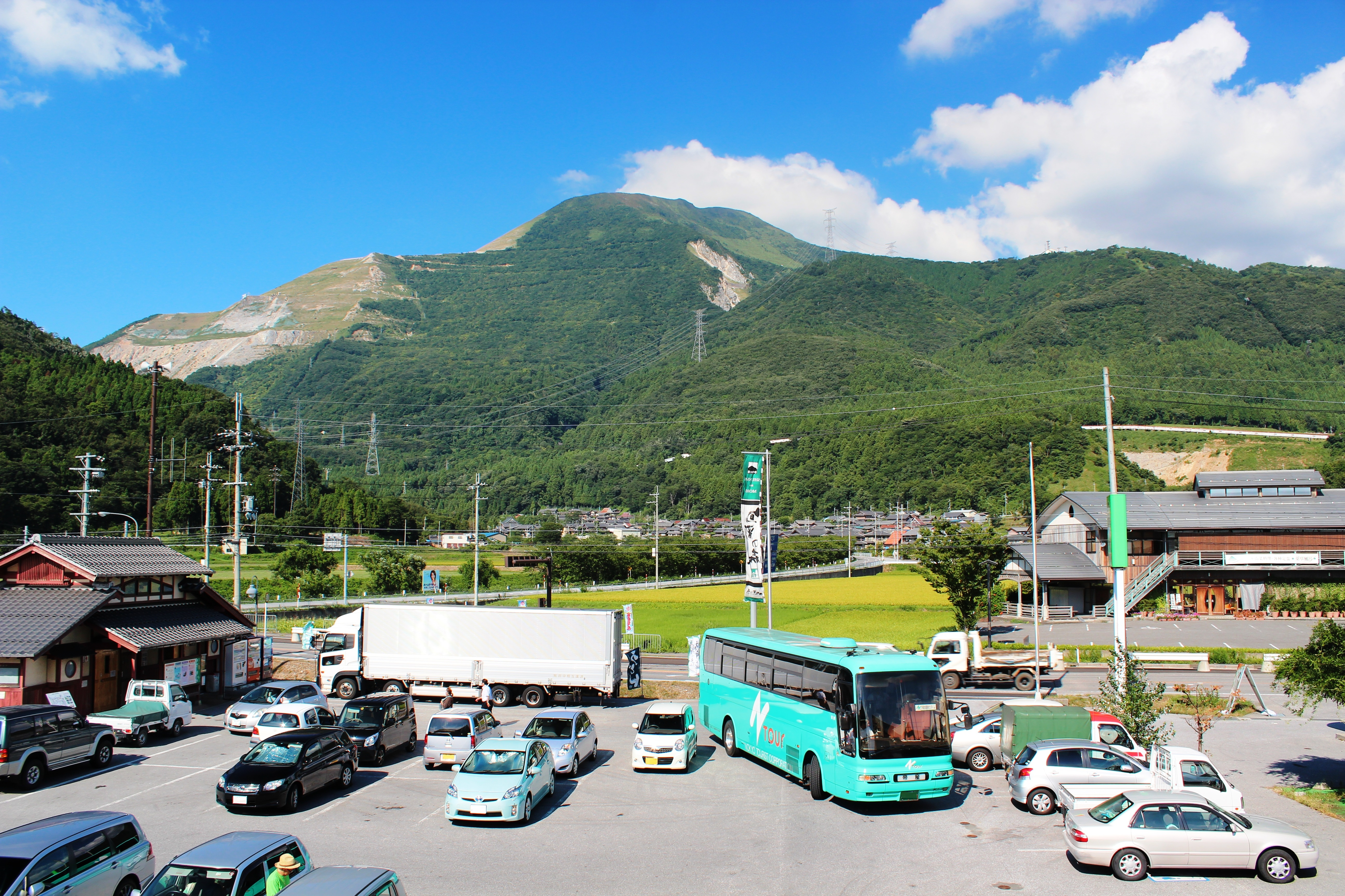 Mount Ibuki seen from Ibukinosato (Michinoeki), in Maibara, Shiga prefecture, Japan.